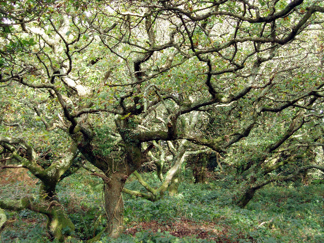 Old oak wood near Goodern Manor Farm. Goodern Manor is mentioned in the Domesday Book. Now surrounded by deserted tin mines.